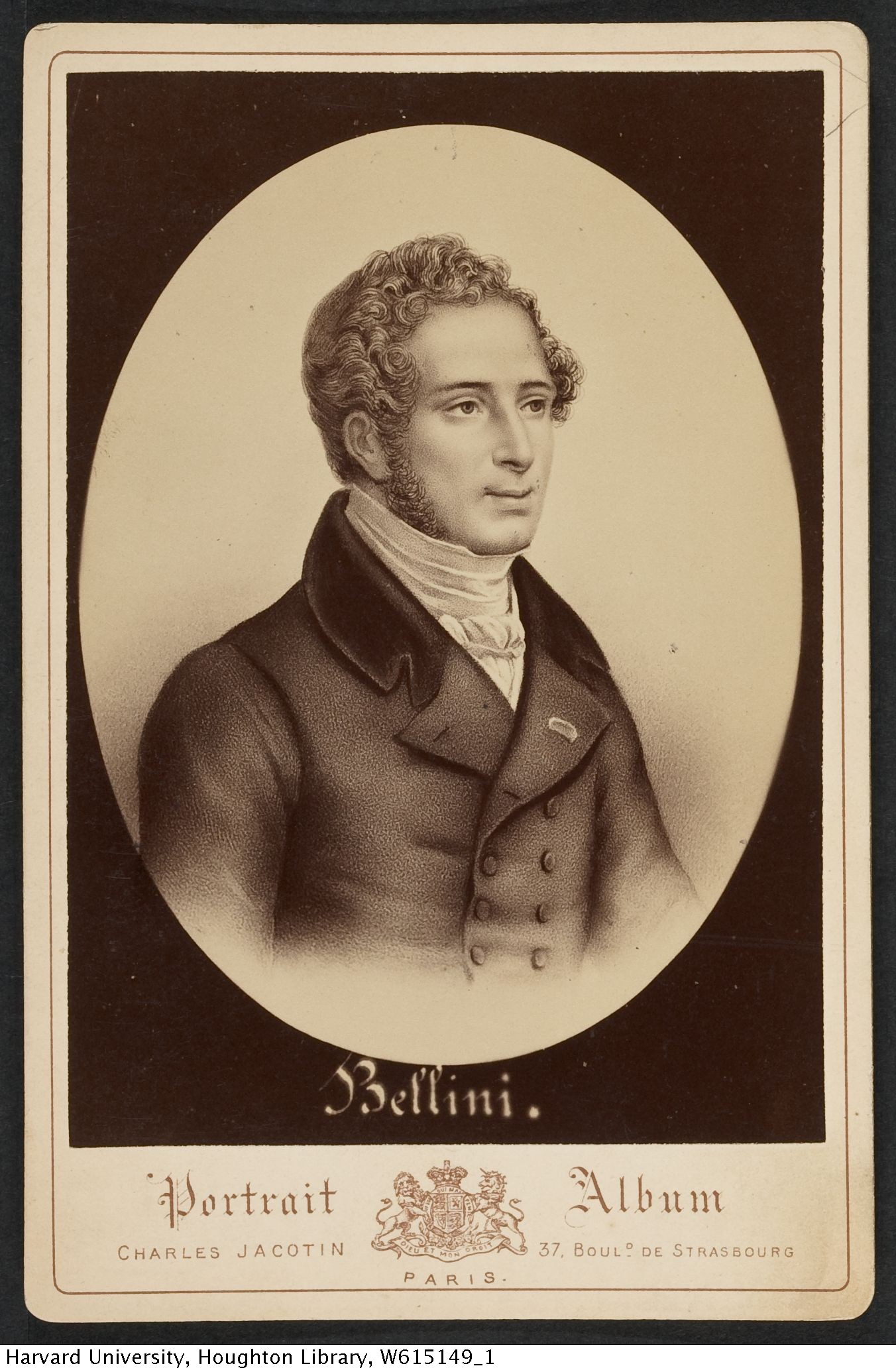 Cabinet card image of Italian composer Vincenzo Bellini (1801-1835). TCS 1.2246, Harvard Theatre Collection, Harvard University